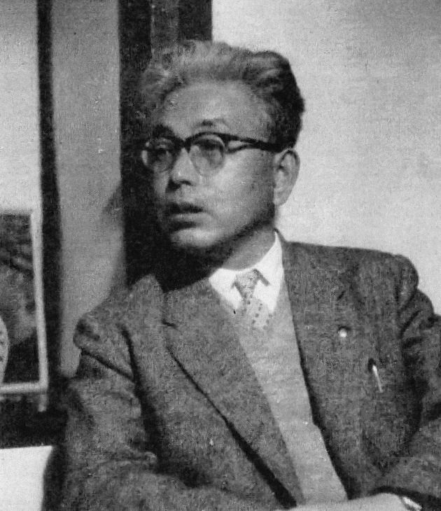 Yoshio Katsu